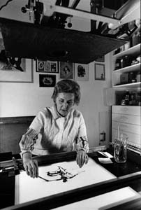 Gisela Ansorge